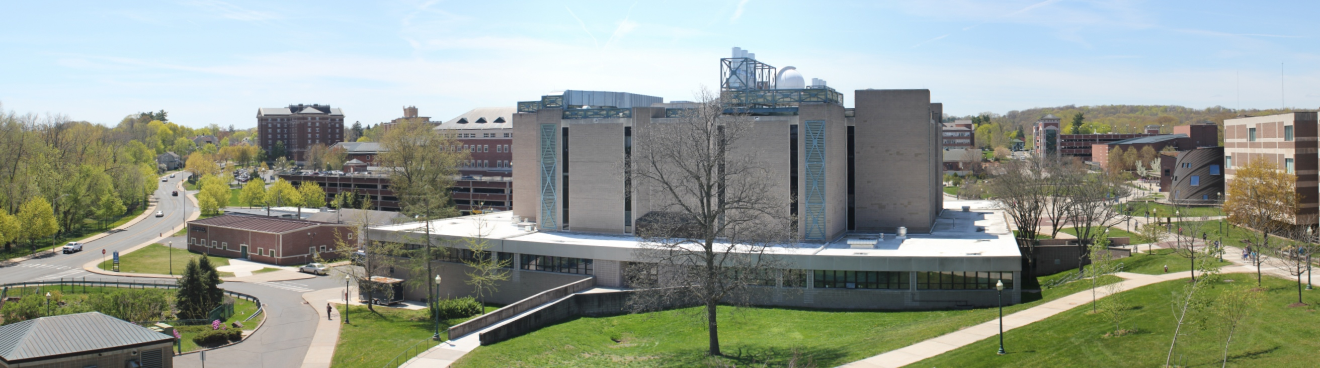 Panorama of CCSU campus from the East, including Copernicus Hall, the Student Center, and Burritt Library.